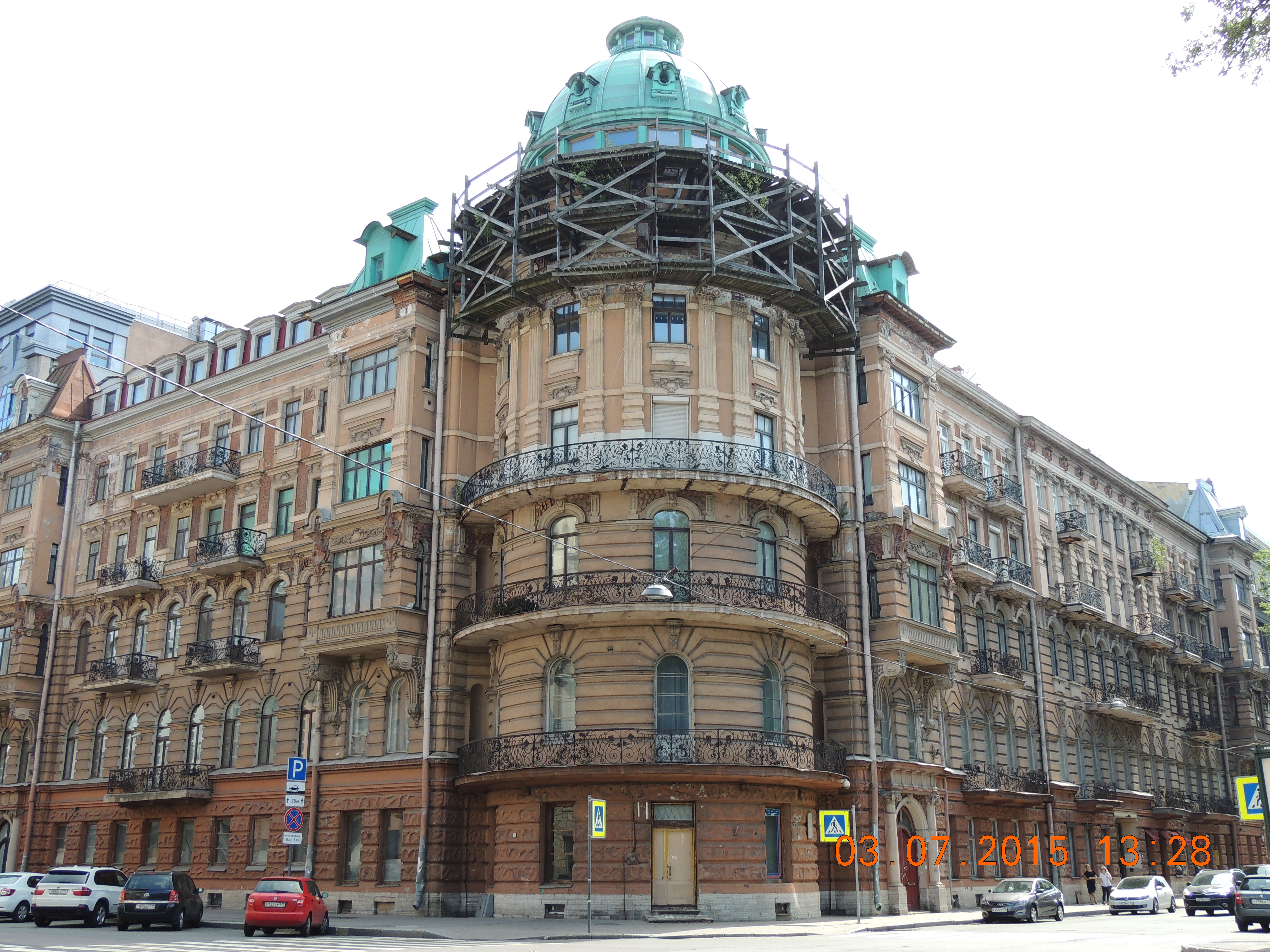 "Tower" Vyacheslav Ivanov